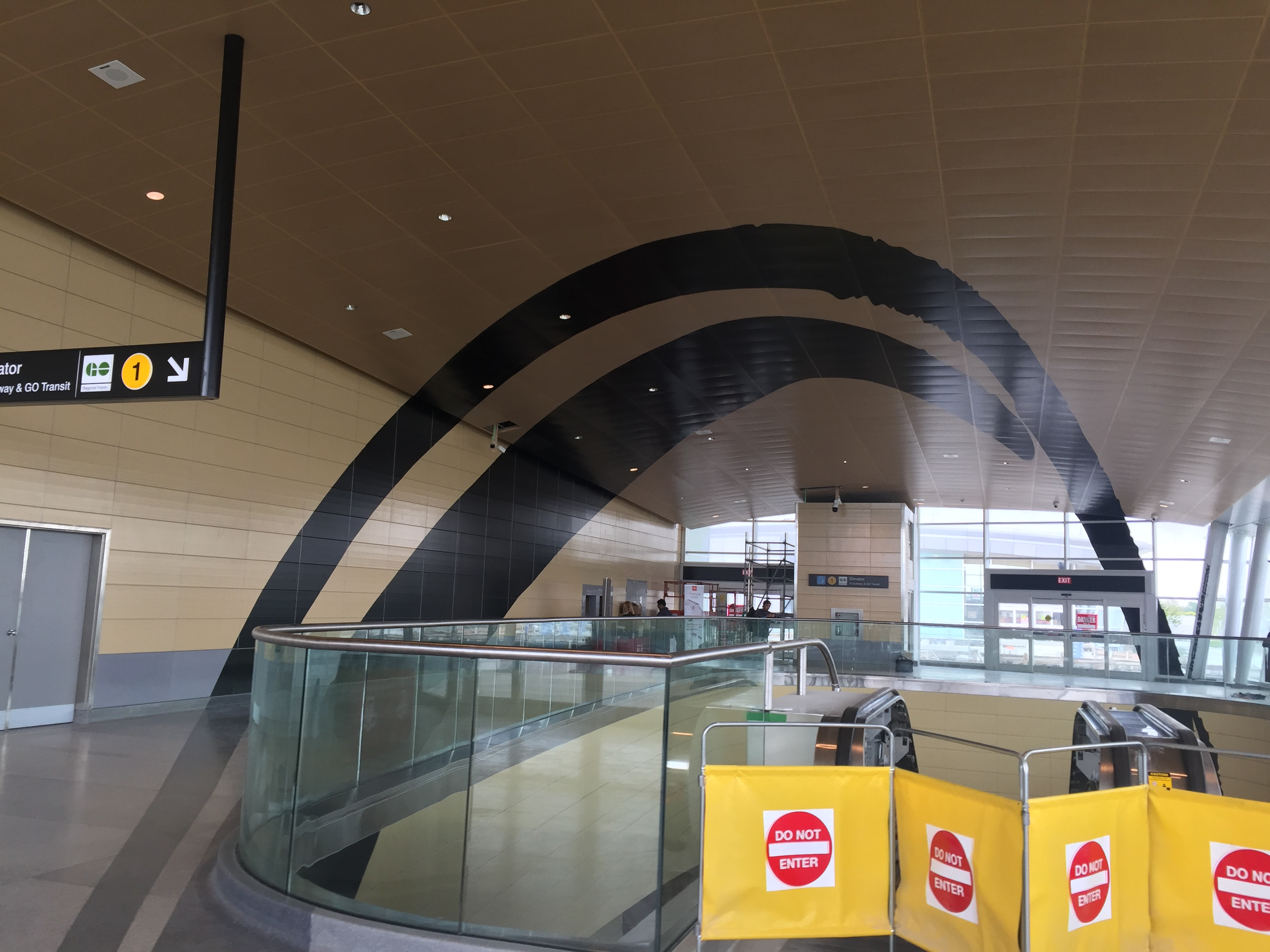 Doors Open Toronto 2017 open house for the new TTC subway stations Downsview and York University.